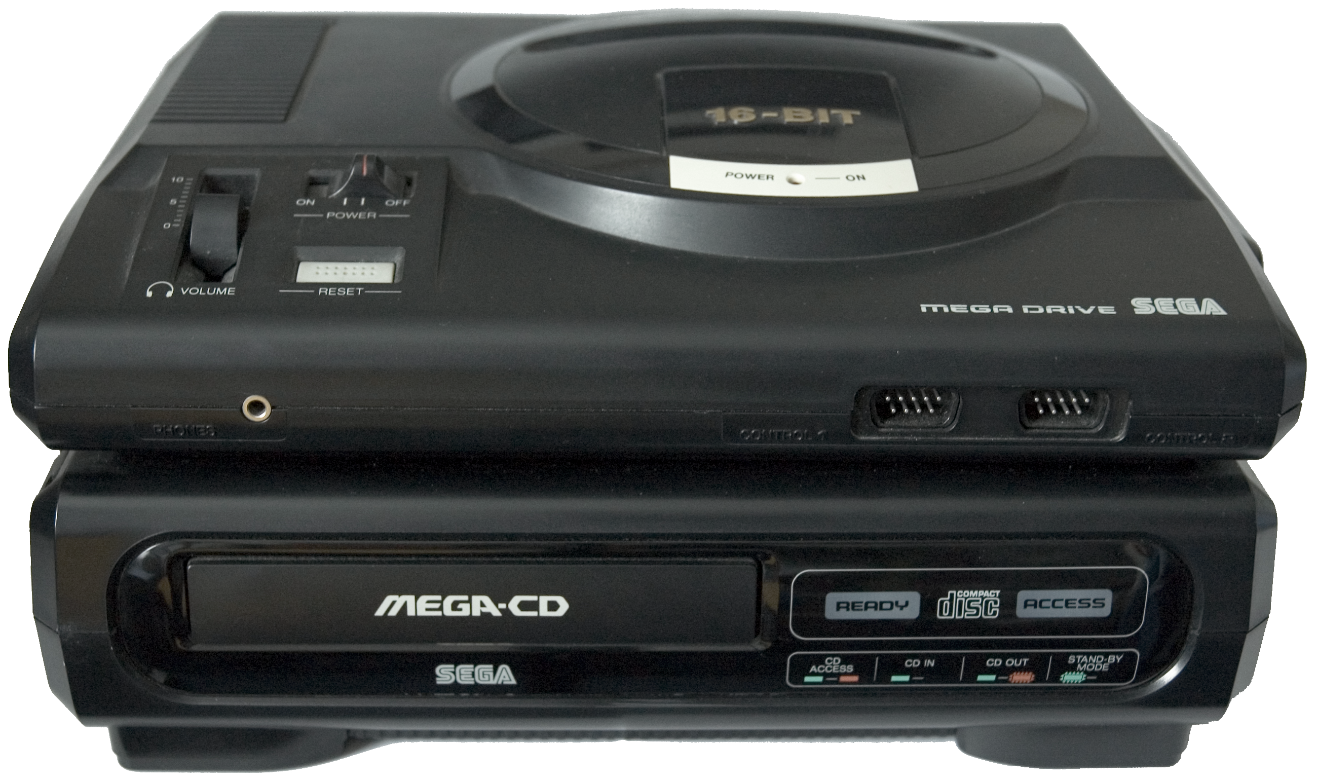 Sega Mega-CD console sitting underneath a Sega Mega Drive. Both consoles are the original launch design and both are European versions.